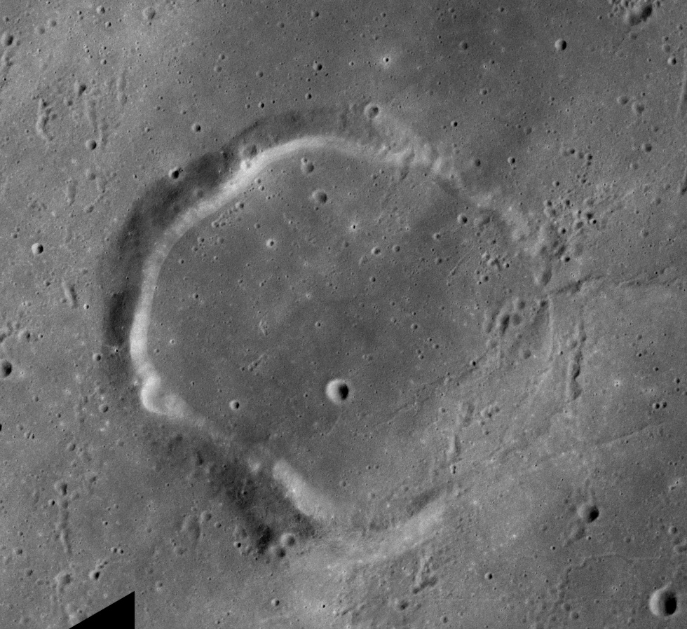 Wallace, on the moon.